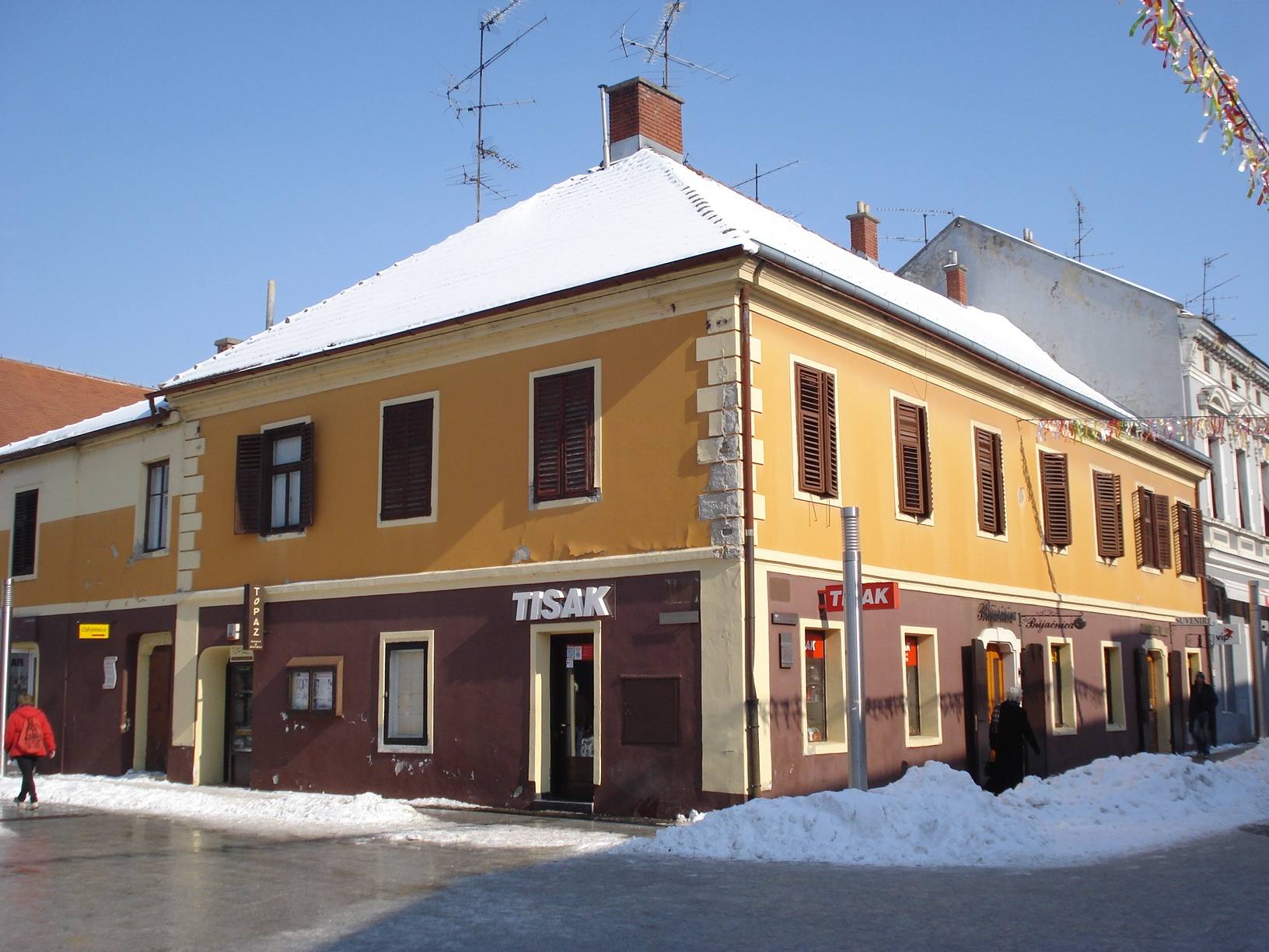 The Town of Čakovec, Croatia, in winter - A classicistic style town house from 1816